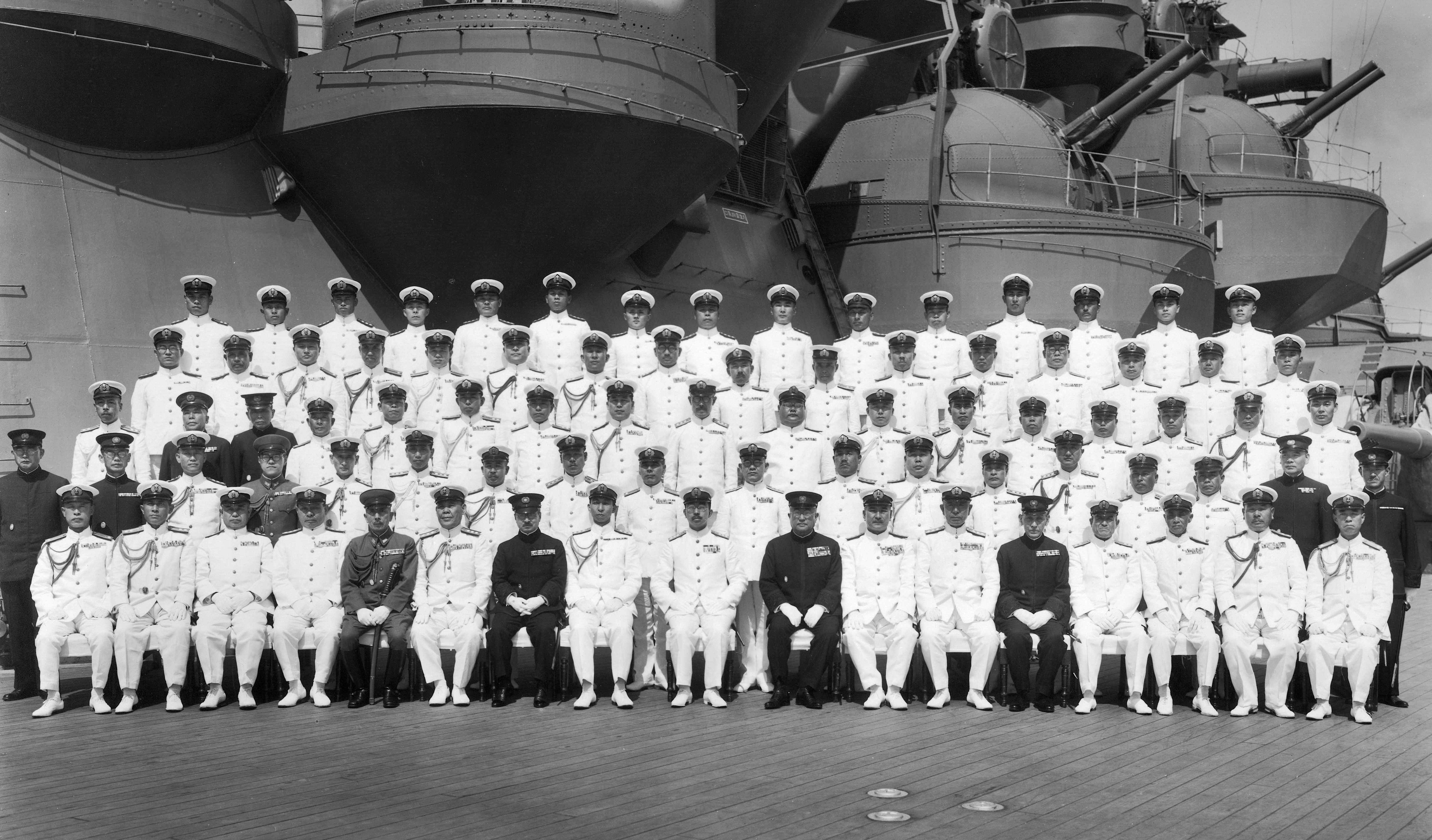 A photo-op aboard battleship Misashi upon her return to Yokosuka Naval Base with the remains of Isoroku Yamamoto, Commander-in-Chief of the Combined Fleet, who was killed when his plane was shot down over Bougainville Island two months earlier. On the front row, left-to-right from the 6th person: Osami Nagano, Chief of the Imperial Japanese Navy General Staff; Kōichi Kido, Lord Keeper of the Privy Seal; HIH Nobuhito, The Prince Takamatsu; HIM Emperor Shōwa (Hirohiro); Tsuneo Matsudaira, Imperial Household Minister; Shigetarō Shimada, Minister of the Navy; Mineichi Koga, Commander-in-Chief of the Combined Fleet; and Saburō Hyakutake, Grand Chamberlain.